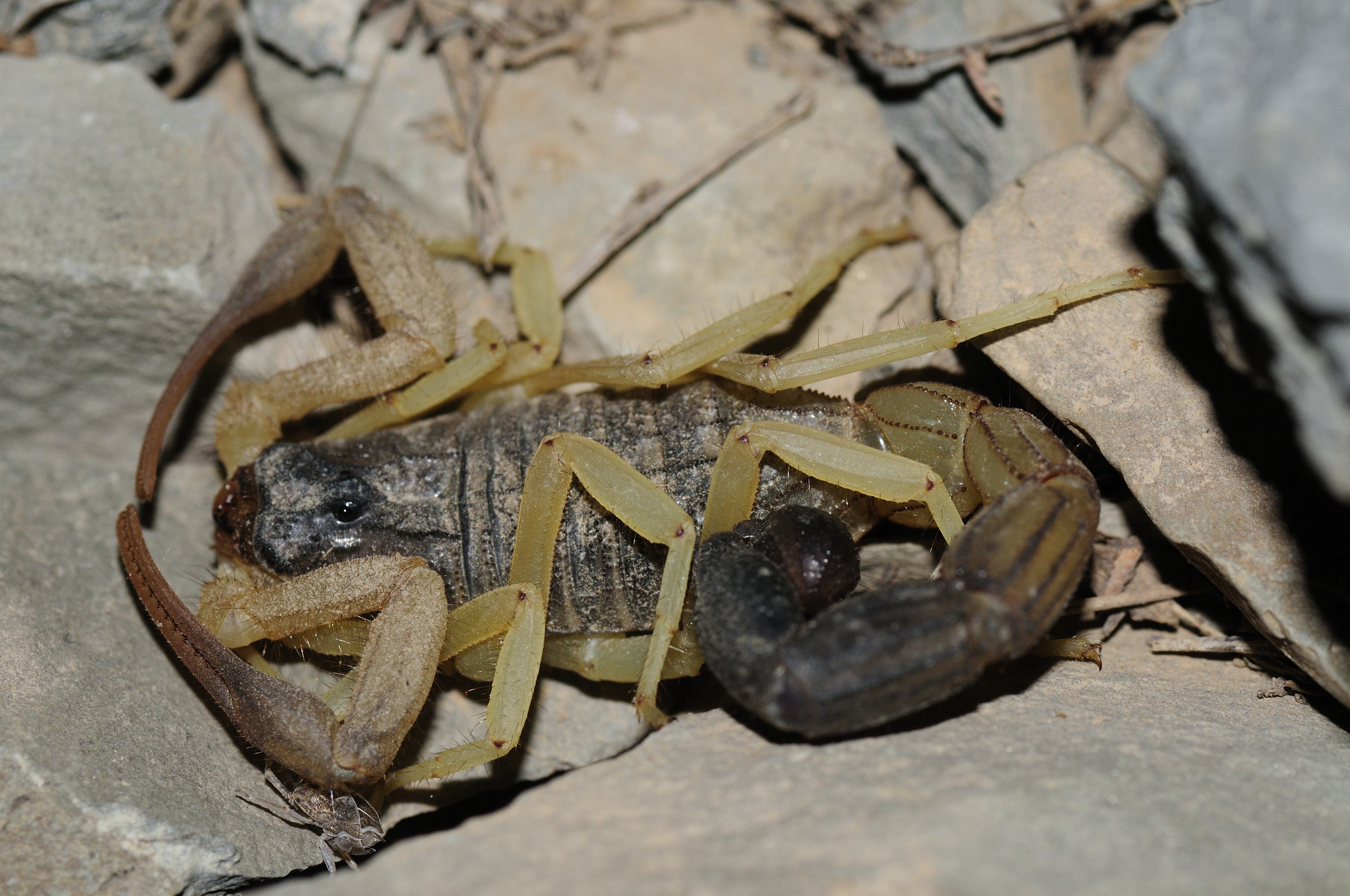 Determination by Benutzer:Accipiter